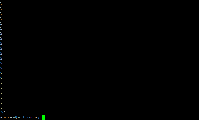 A job (a standard yes program) on the Solaris operating system quitting via Ctrl+C